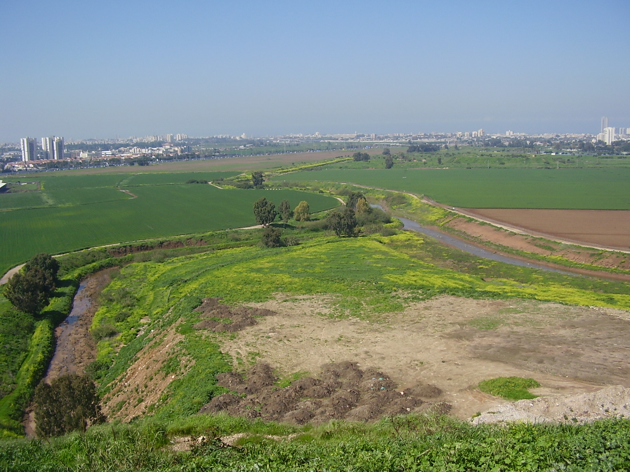 View from Ariel Sharon Park near Tel Aviv